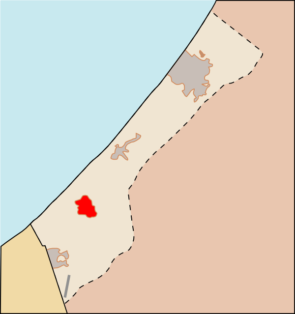 Locator map of the city of Khan Yunis — in the southern Gaza Strip of the Palestinian territories. It is the capital city of the Khan Yunis Governorate.